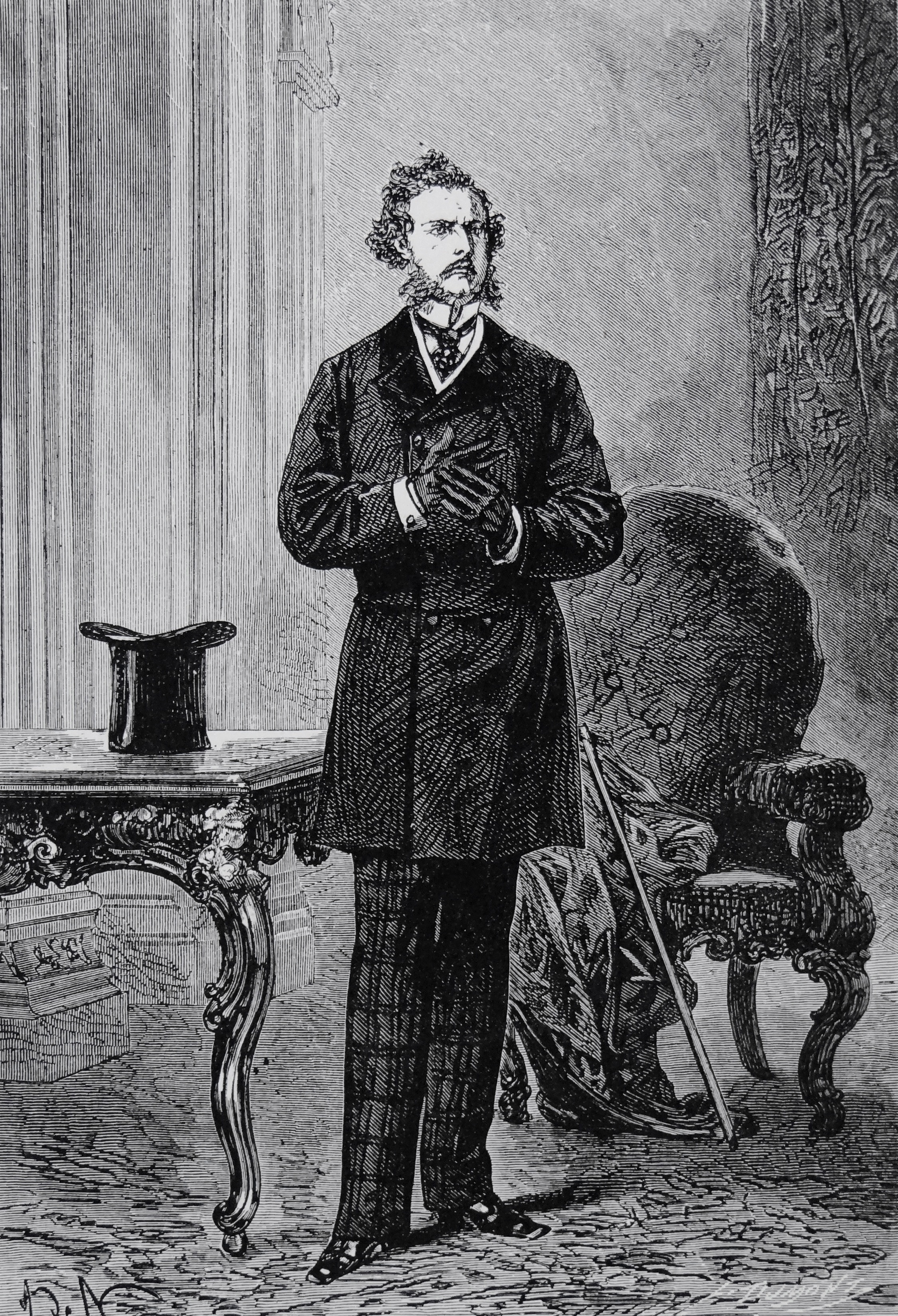 Frontispiece: Phileas Fogg. An ilustration from the novel "Around the World in Eighty Days" by Jules Verne painted by Alphonse de Neuville and/or Léon Benett.